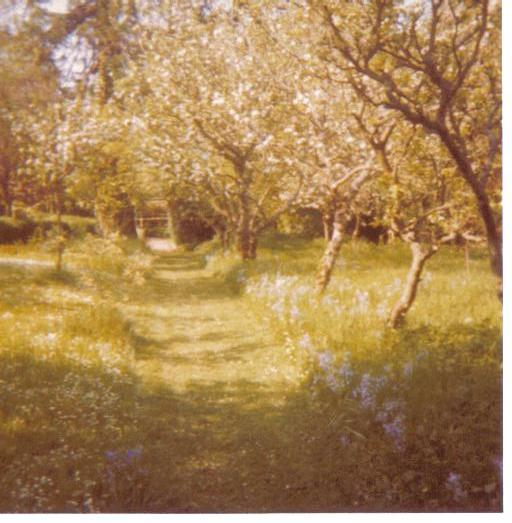 The Old Orchard at Woodway House to the right and the New Orchard to the left.